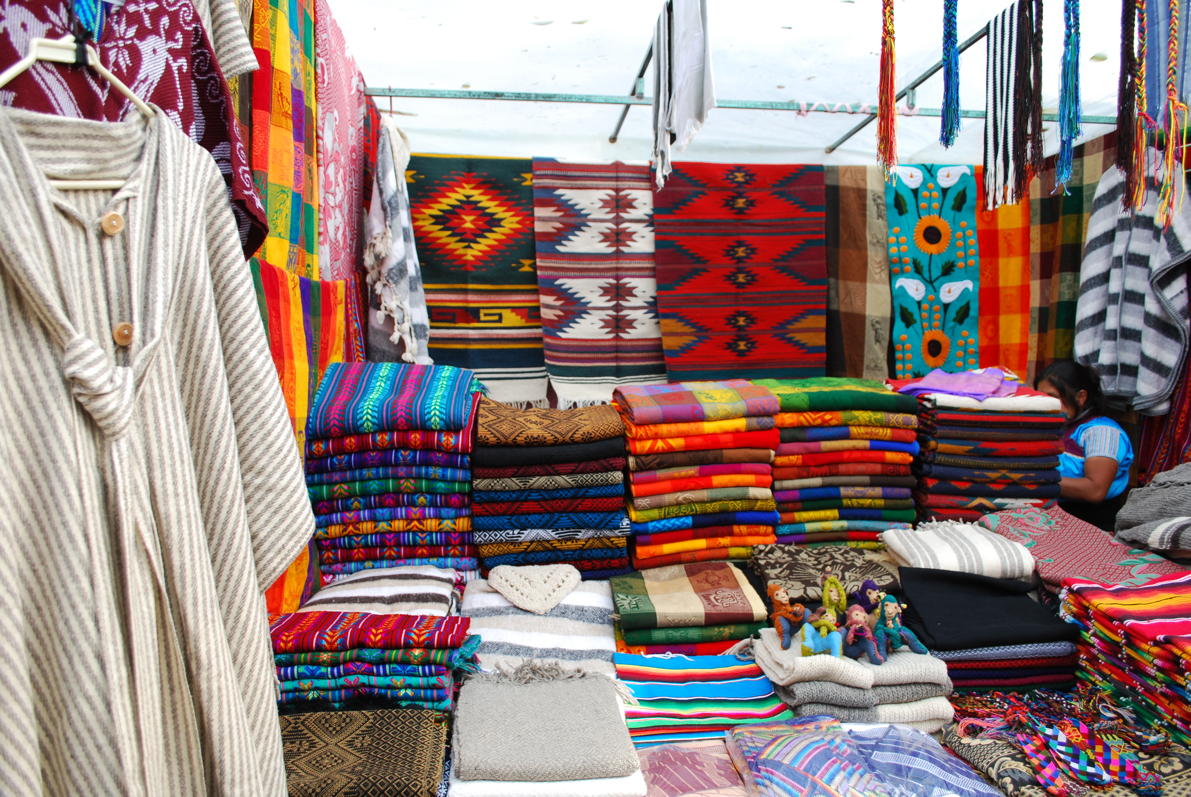 Stall selling textiles in front of the Santo Domingo Church in San Cristobal de las Casas, Chiapas, Mexico